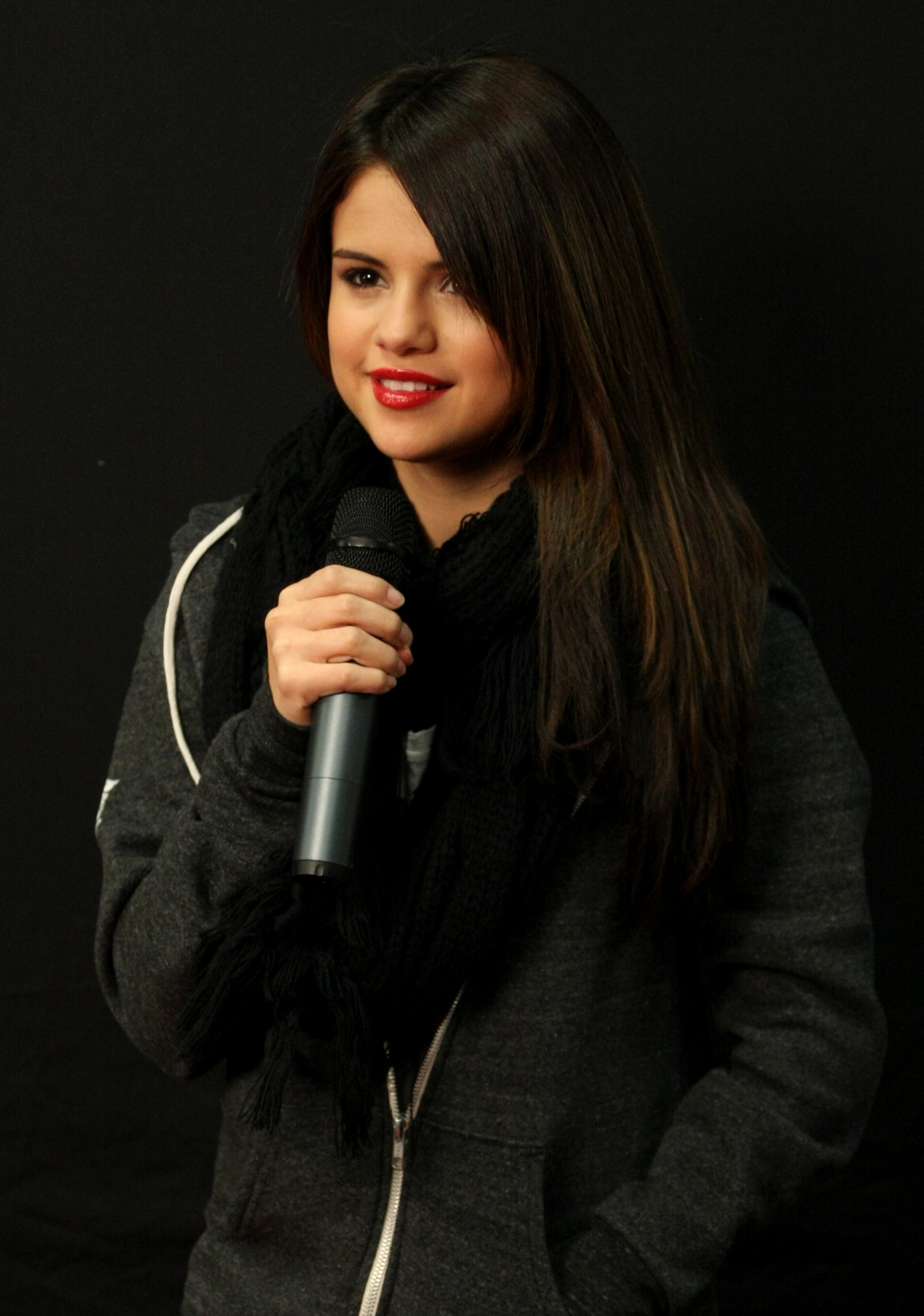 Selena Gomez performing live at KISS 108 Jingle Ball December 2010